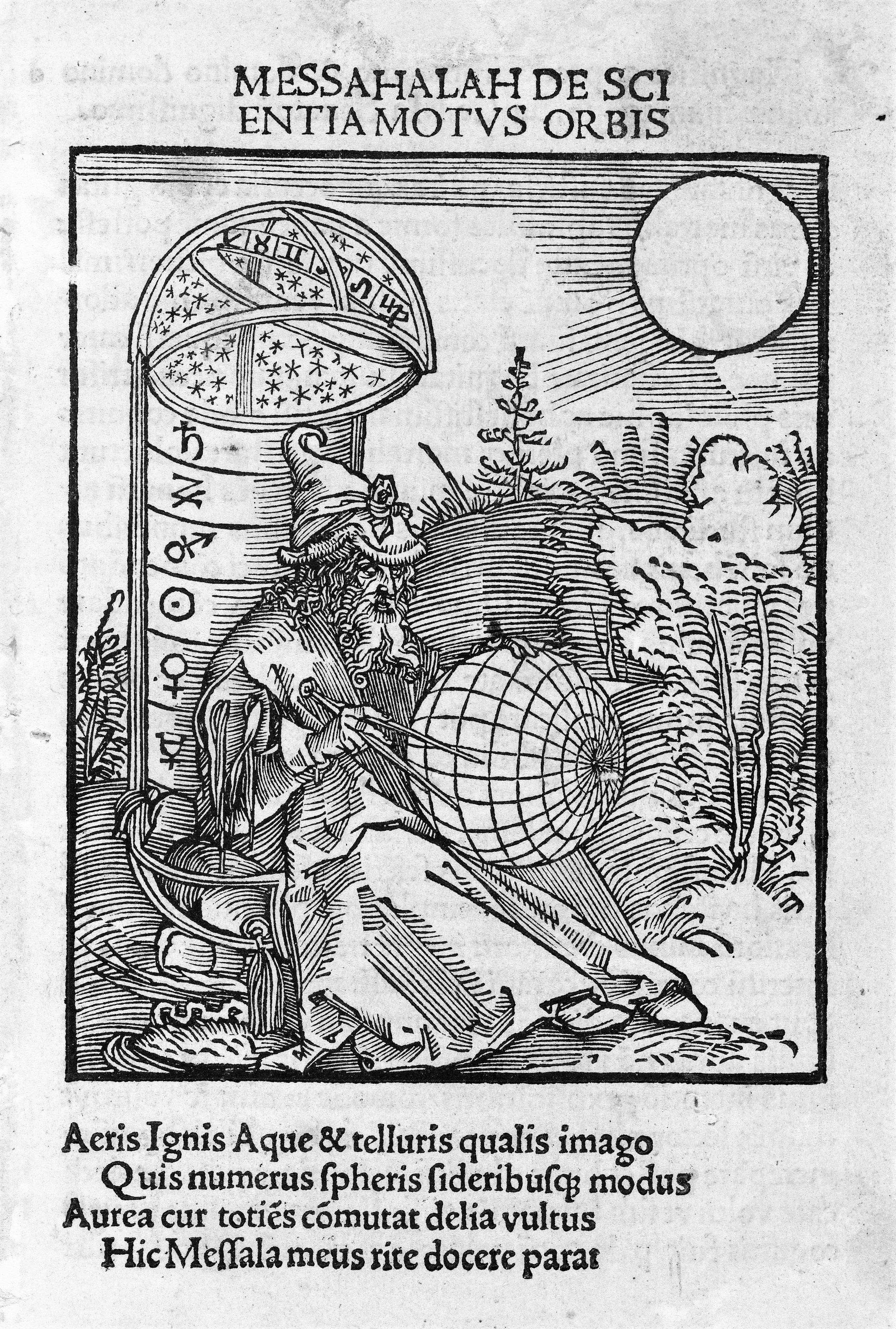 Title page for a 1504 German edition of De scientia motvs orbis, originally by Māshāʼallāh (730?-815?). Typ 520.04.561, Houghton Library, Harvard University